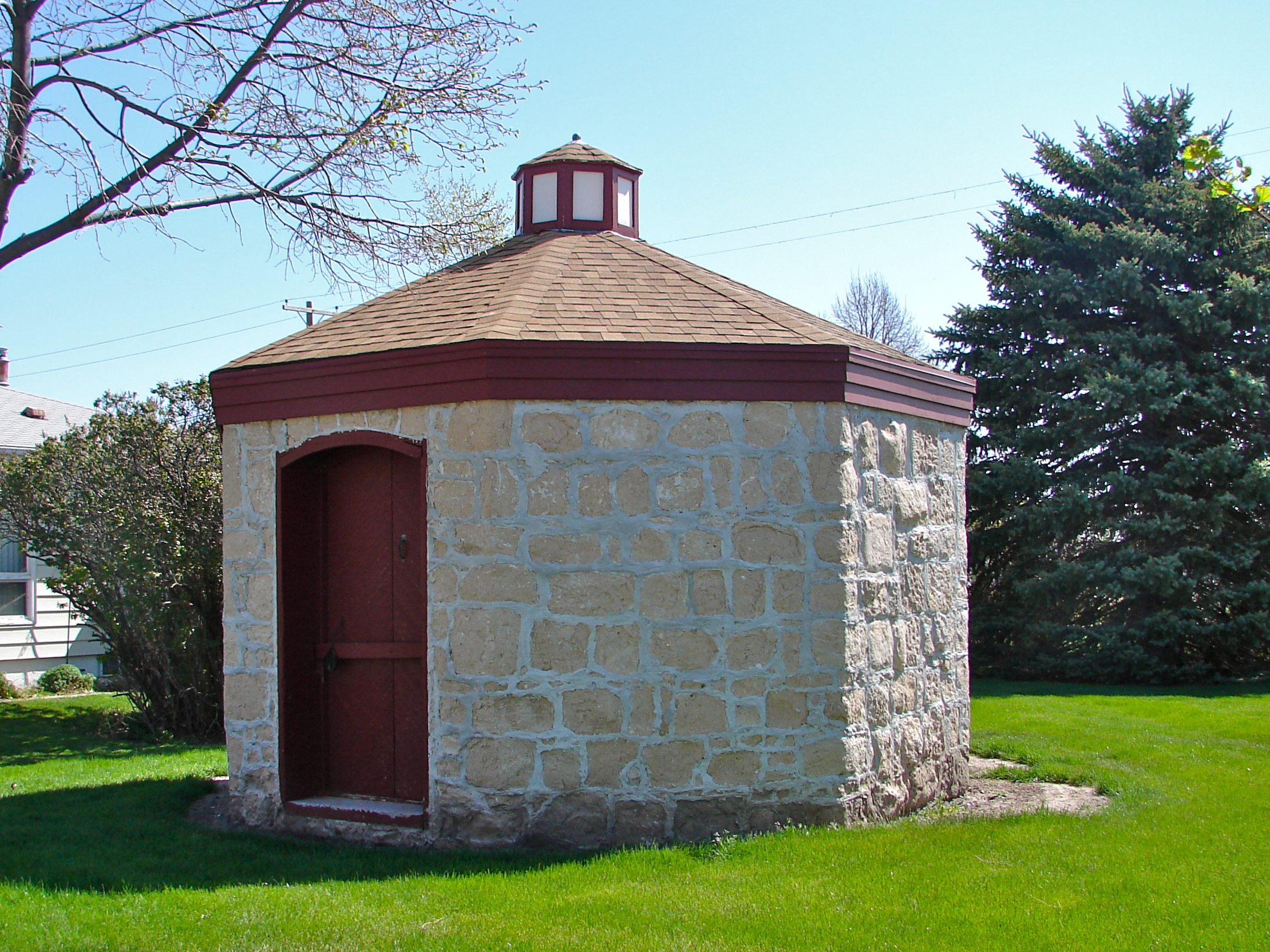 Octagonal powder magazine in Fort Sidney Historic District on the NRHP since March 28, 1973. The Historic District is roughly bounded by 6th and 5th Aves., Linden and Jackson, in Sidney, Nebraska (east of the tracks). There appears to be only 3 structures in the HD: officers quarters, commander's quarters, and this magazine. Museum in the officer's quarters seems to be semi-permanently closed.